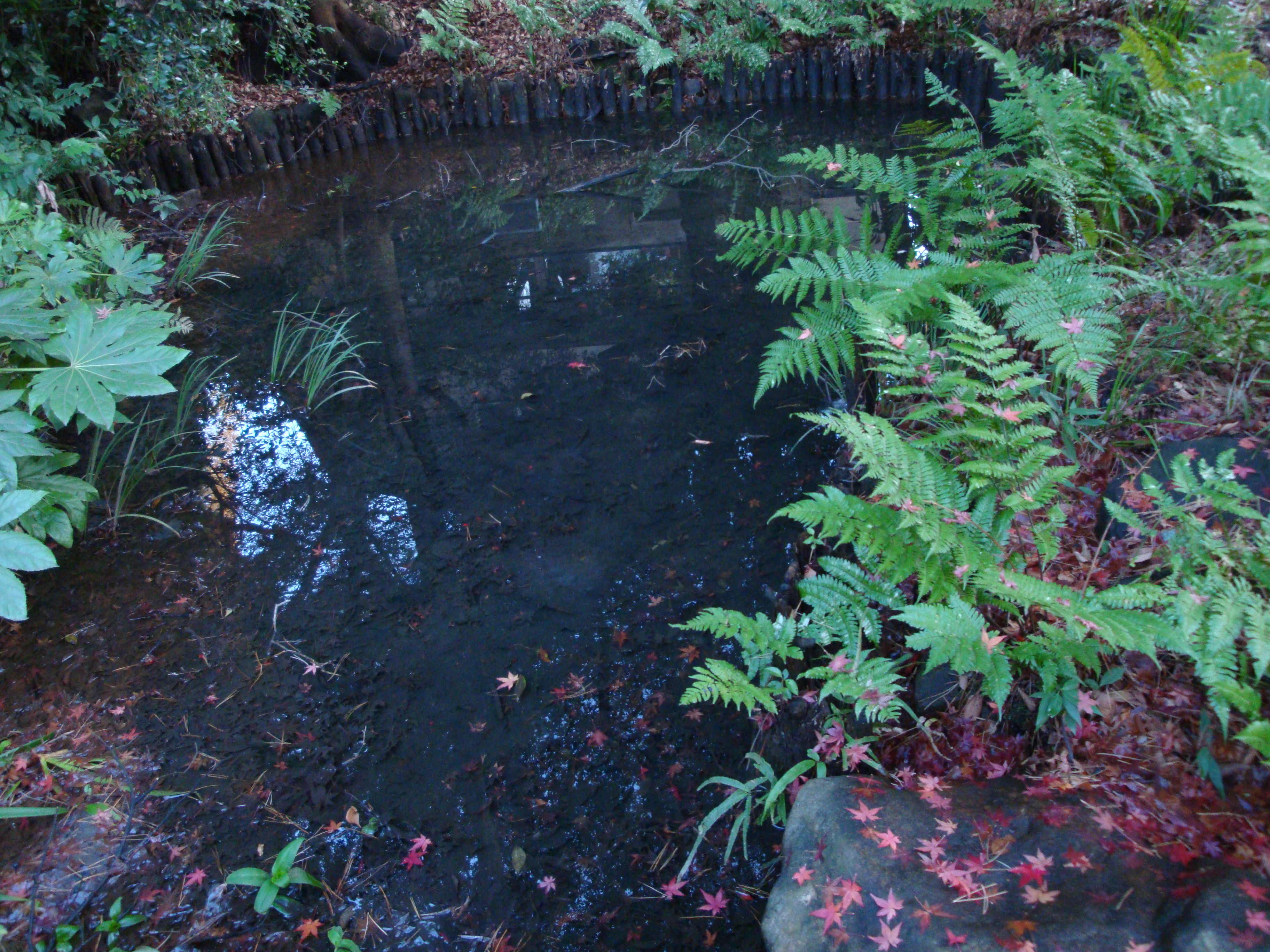 Shin-Edogawa Garden, Bunkyo, Tokyo